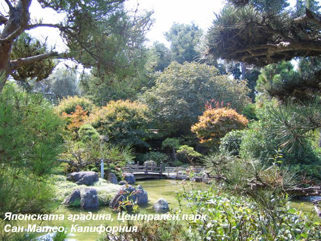 Japanese garden in Central Park, San Mateo, California.